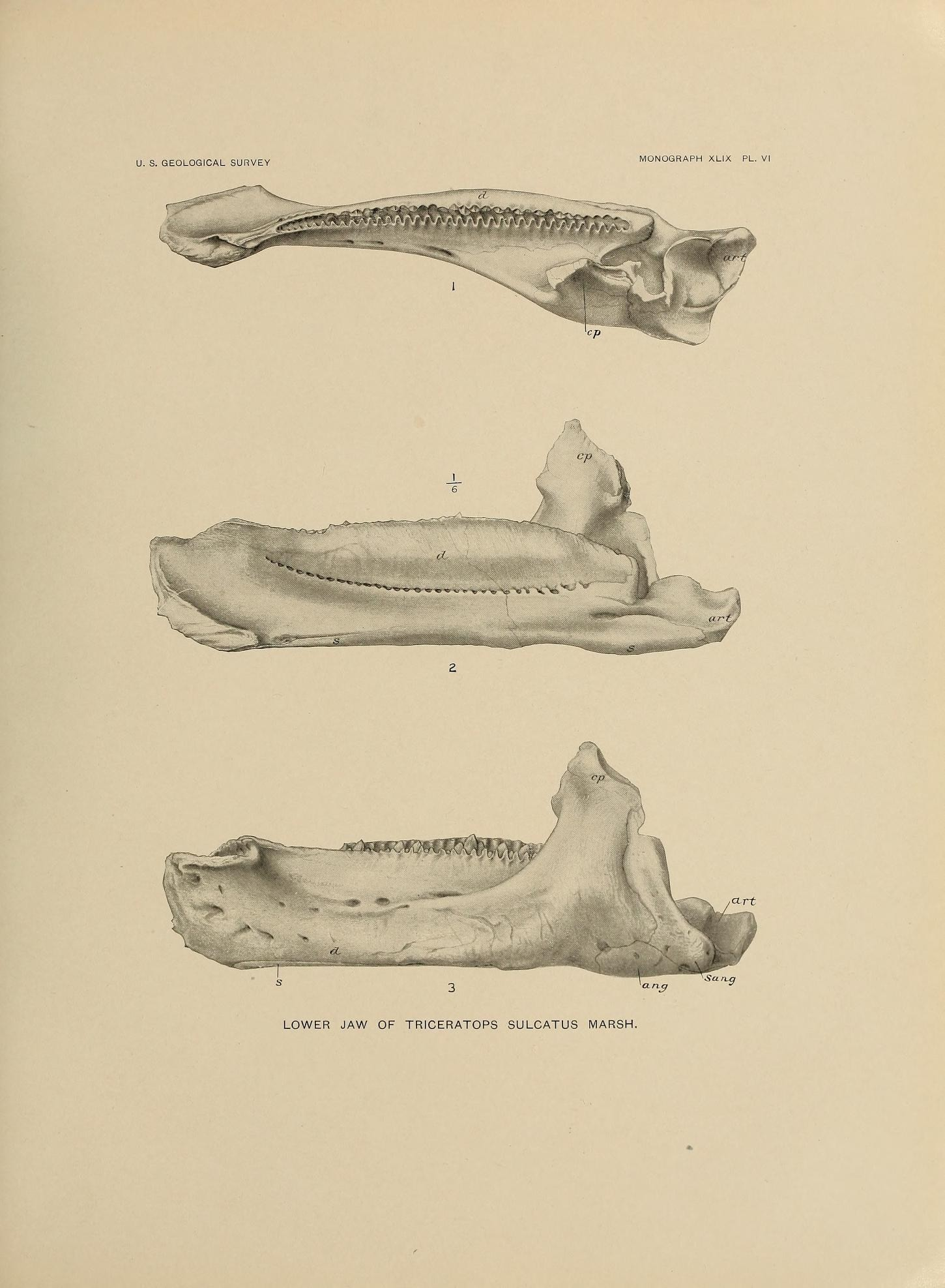 Lower jaw of Triceratops sulcatus Marsh.